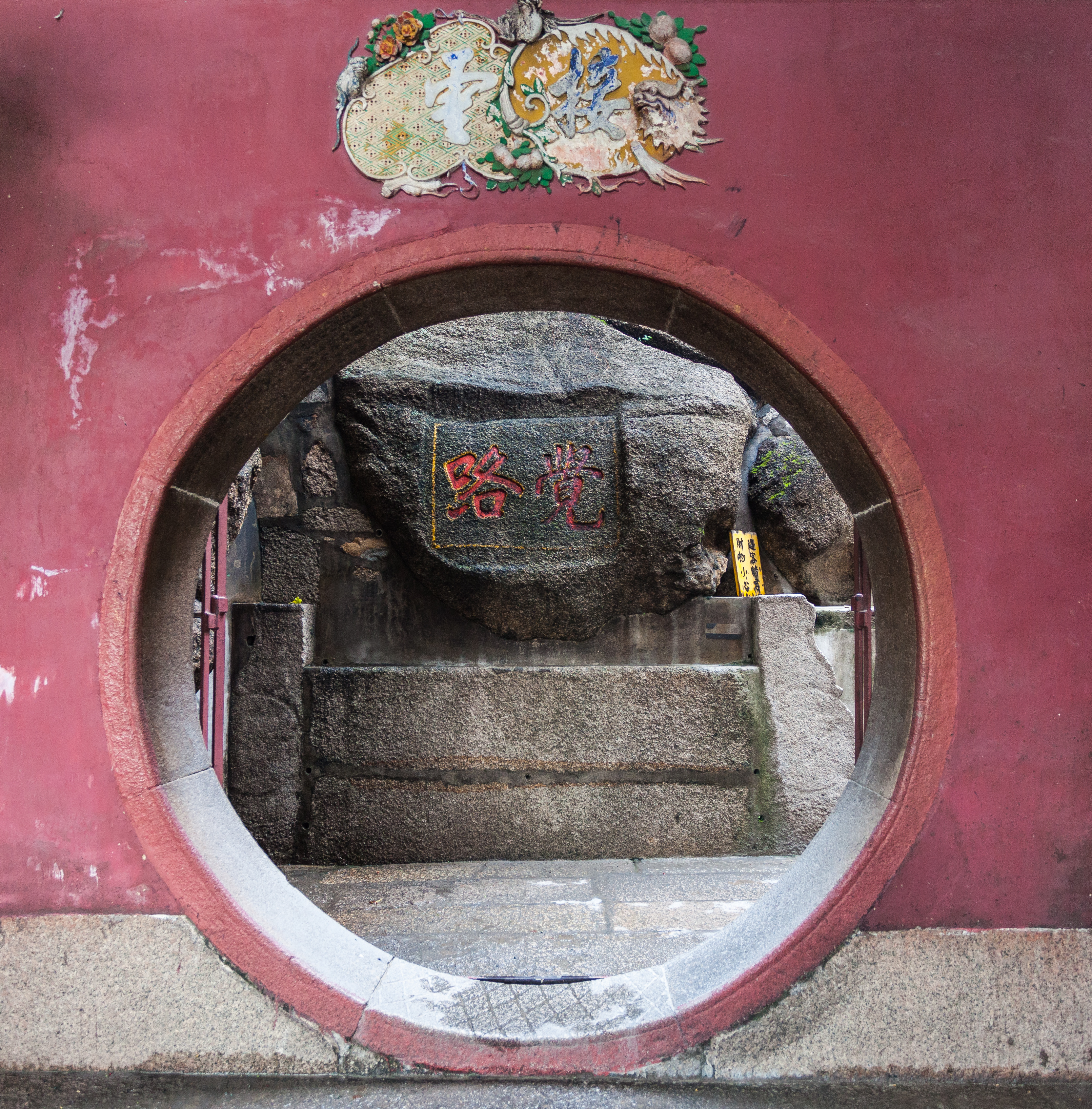 A-Ma Temple, Macau